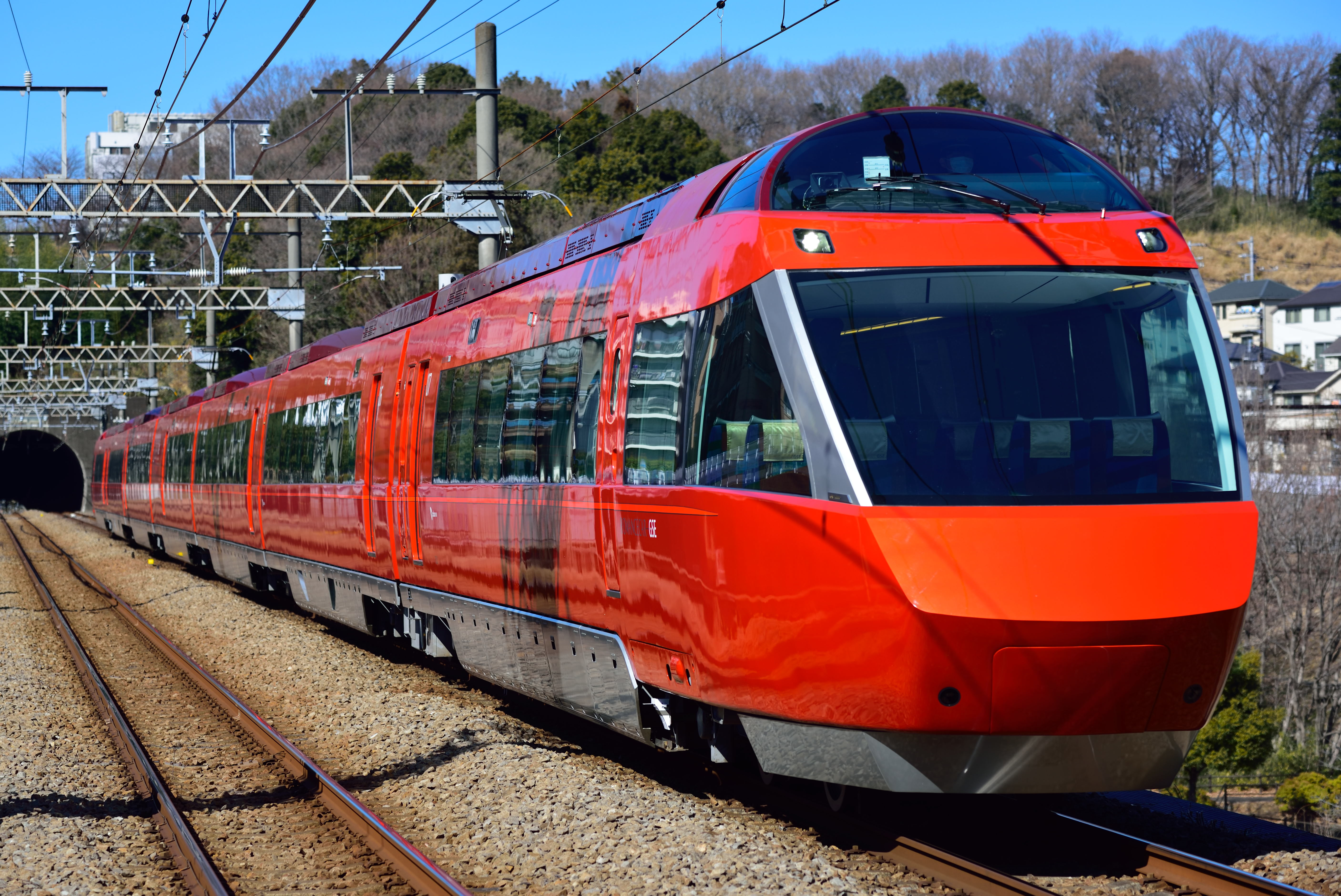 Odakyu Electric Railway 70000 series "GSE" EMU set 70051 on a test run approaching Haruhino Station on the Odakyu Tama Line in Kanagawa Prefecture, Japan